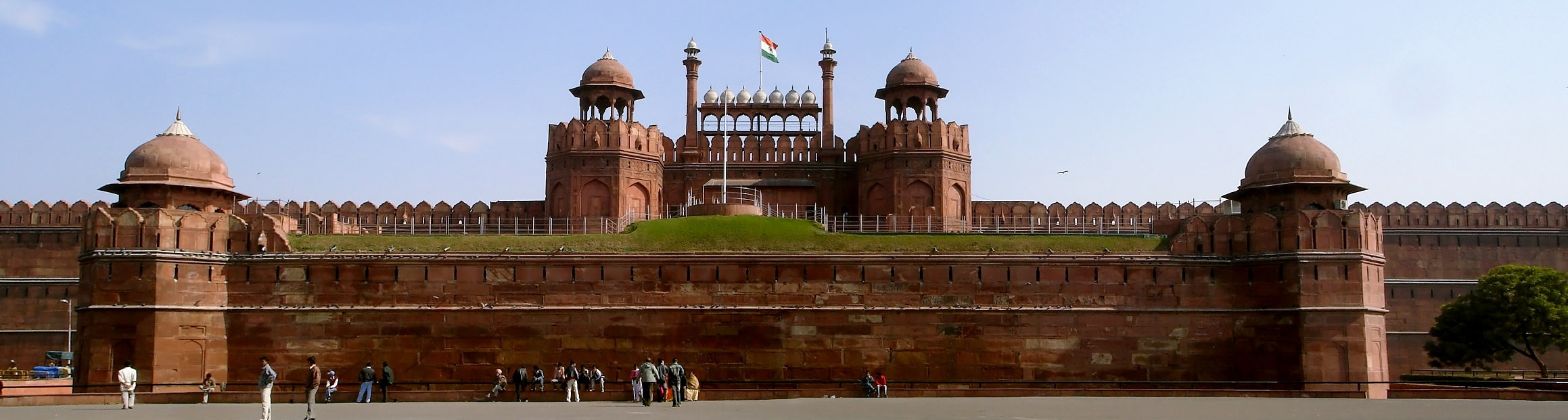 The main facade of the Red Fort, Delhi.